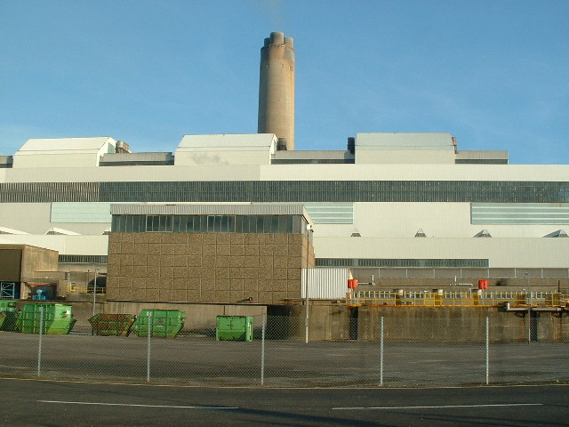 Aberthaw Power Station. A Coal Burning Power station